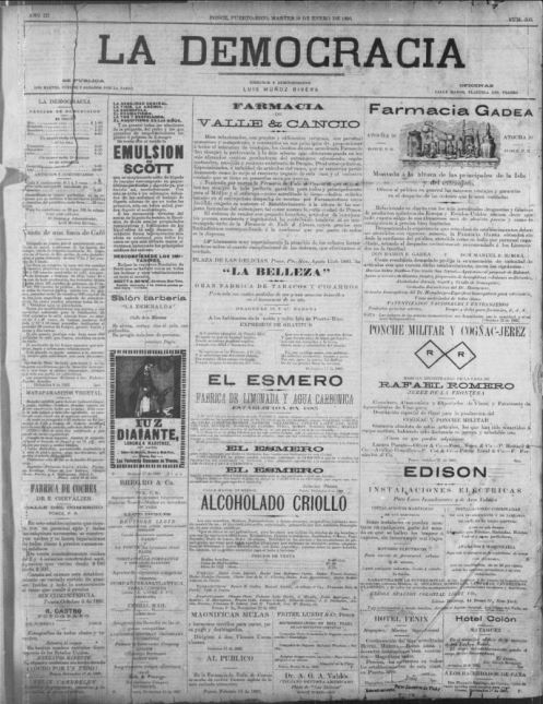 Periódico La Democracia, Ponce, Puerto Rico, edición de 10 de enero de 1893